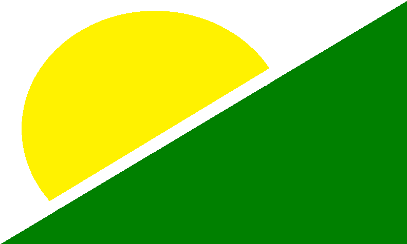 Jonų Respublikos vėliava